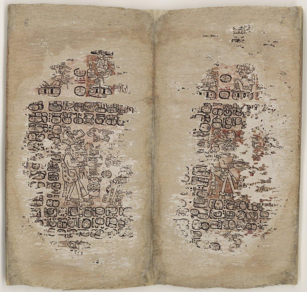 Pages 6-7 of the Paris Codex, a Postclassic Maya book.